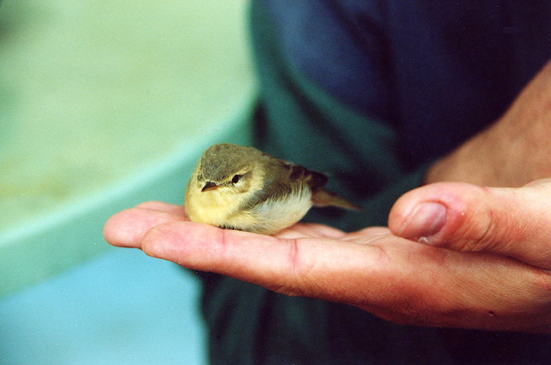 A willow warbler Phylloscopus trochilus.